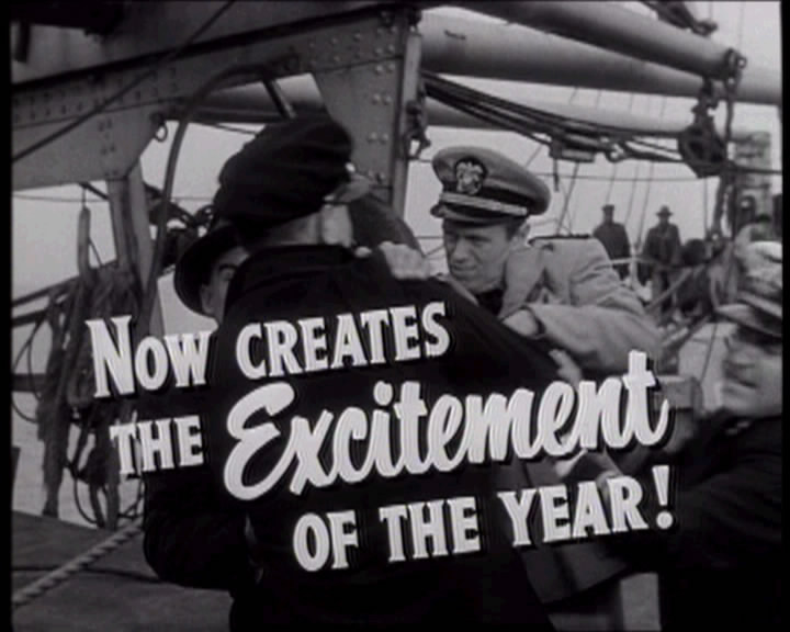 Panic in the Streets is a black and white, 96-minute film directed by Elia Kazan and released in 1950 by 20th Century Fox. It is film noir semidocumentary shot exclusively on location in New Orleans, Louisiana.